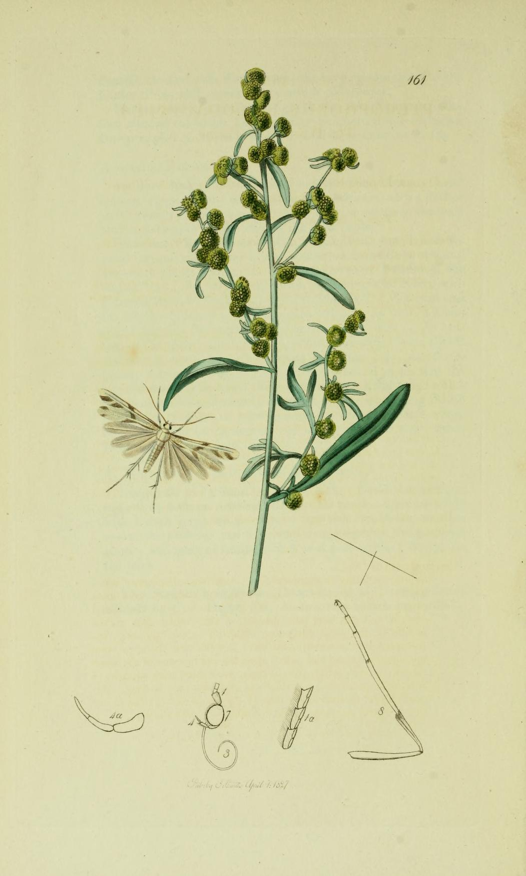 An illustration from British Entomology by John Curtis. Lepidoptera: Pterophorus spilodactylus (Wormwood Plume).